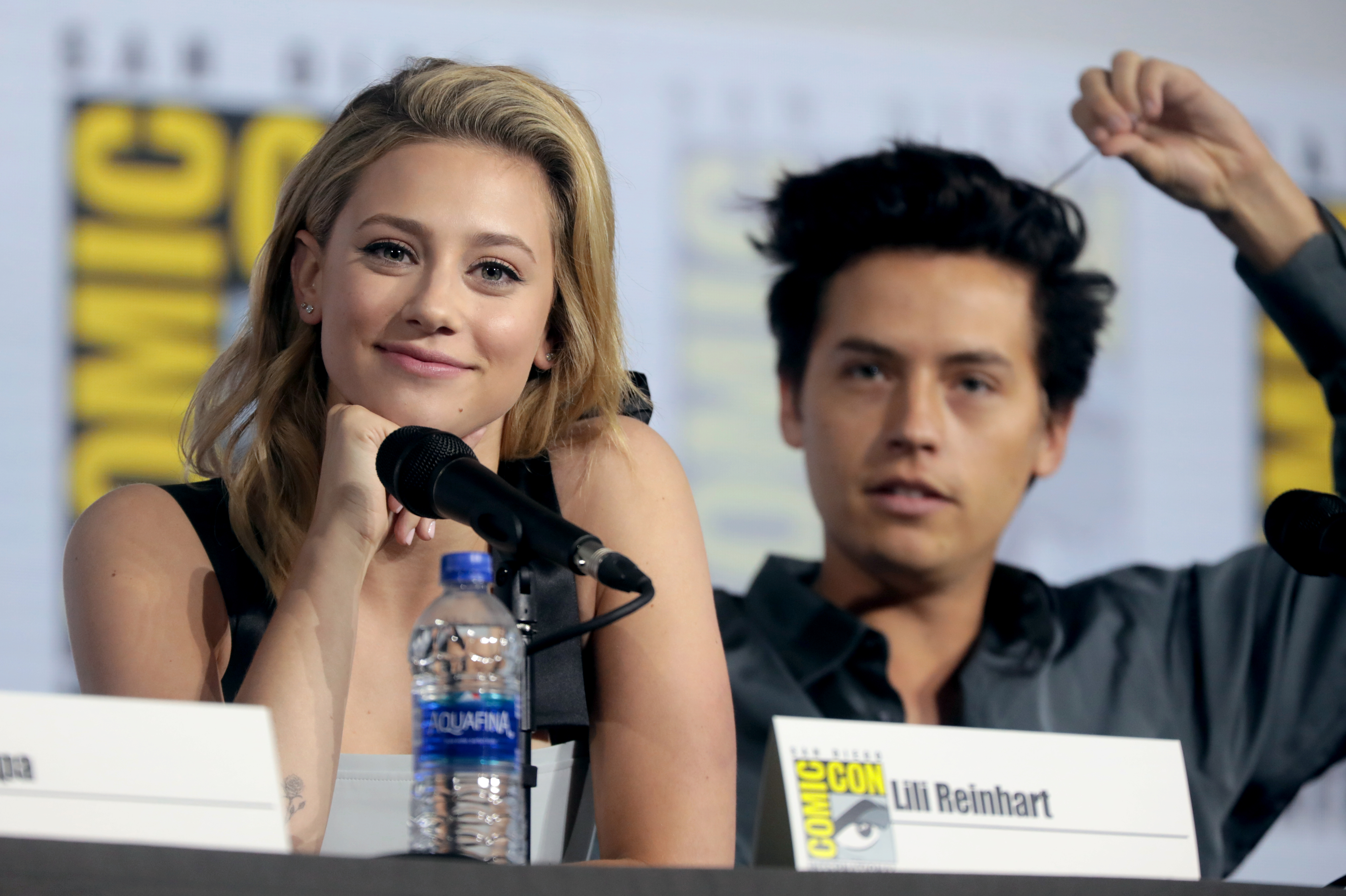 Lili Reinhart and Cole Sprouse speaking at the 2019 San Diego Comic Con International, for "Riverdale", at the San Diego Convention Center in San Diego, California.